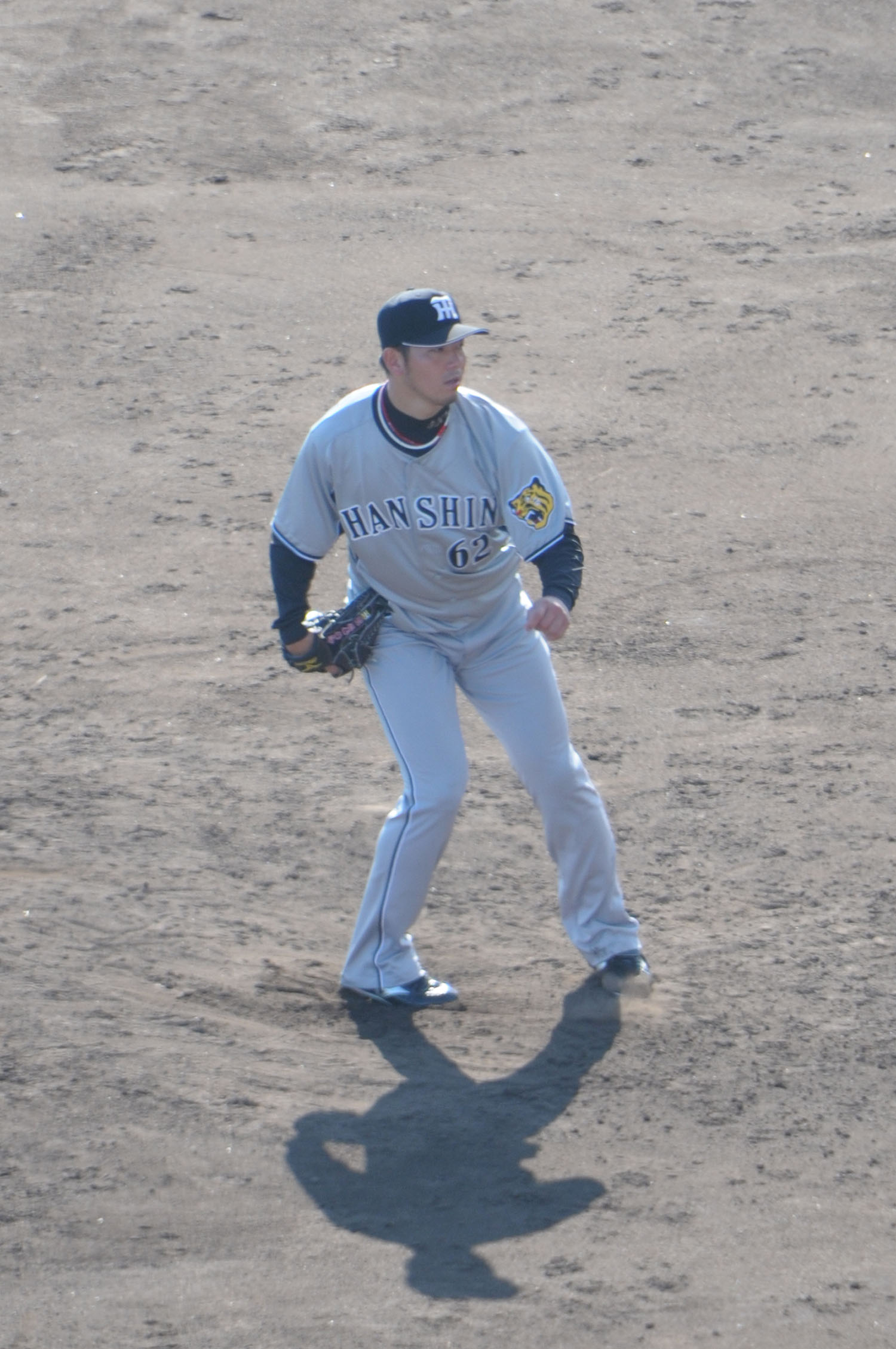 Yusuke Kawasaki, pitcher of the Hanshin Tigers, at Akita Prefectural Baseball Stadium.